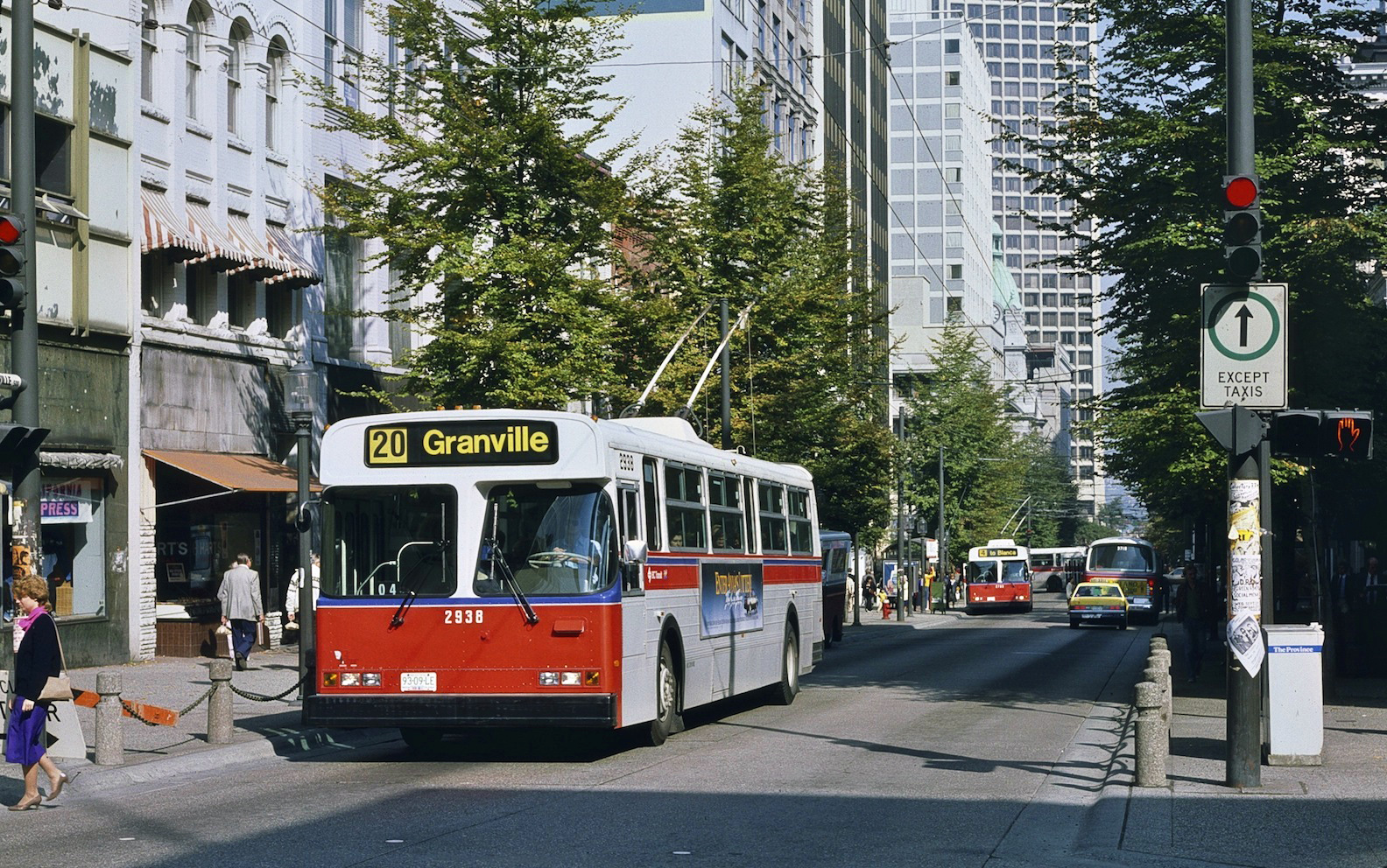 Vancouver trolleybus 2938, a Flyer E902 built in 1983, southbound on the Granville Mall at Dunsmuir Street, on route 20-Granville. That route was renumbered 8 in September 1997 and renumbered 10 in September 2003. In the background, another E902 trolleybus is in service on route 4-Fourth to Blanca Street.